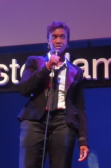 Claron McFaddon performing at the end of TEDxAmsterdam 2011